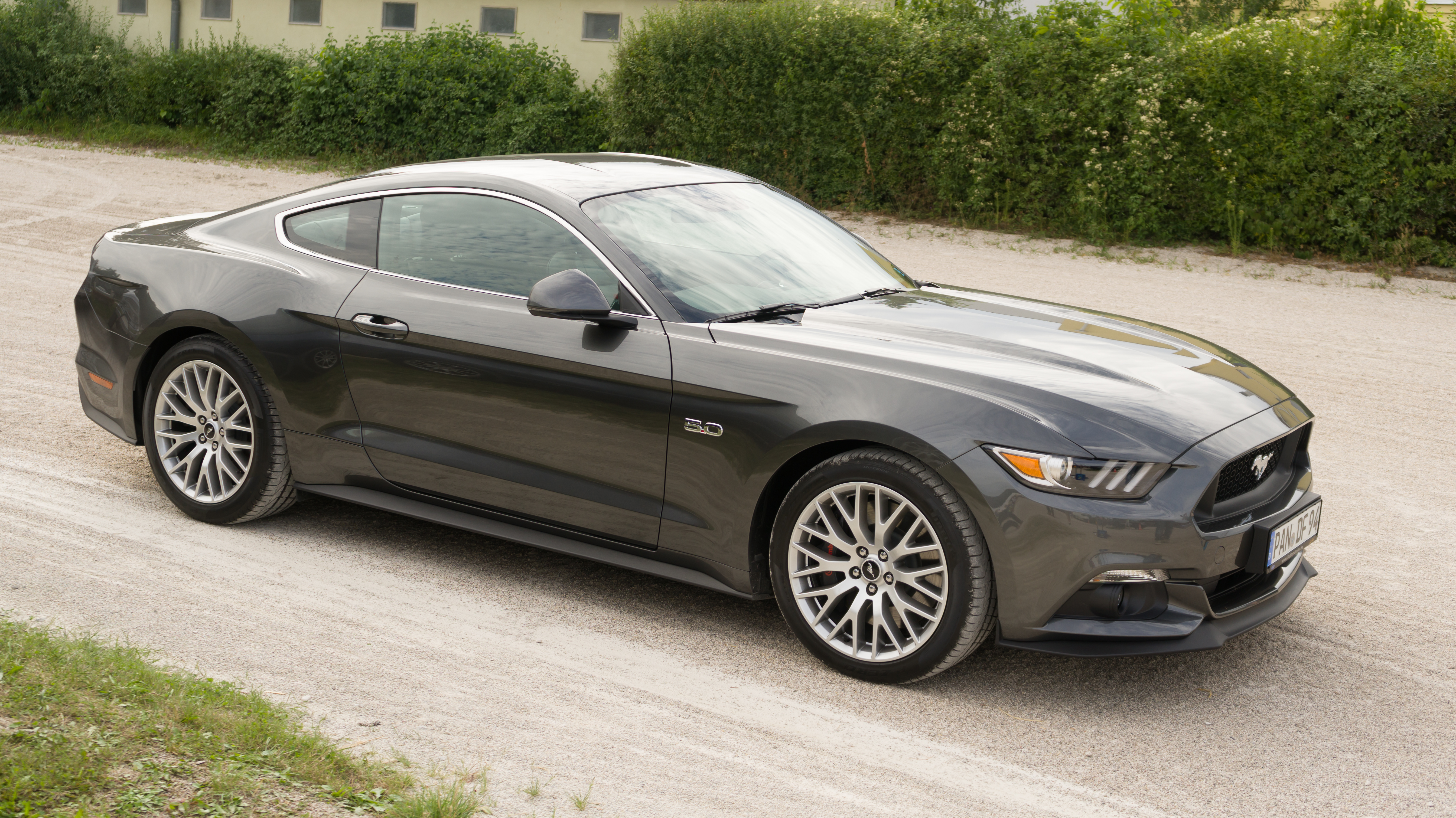 Ford Mustang Fastback 5.0l V8 2015 Model at the Austrian 500 US-Car Days 2015